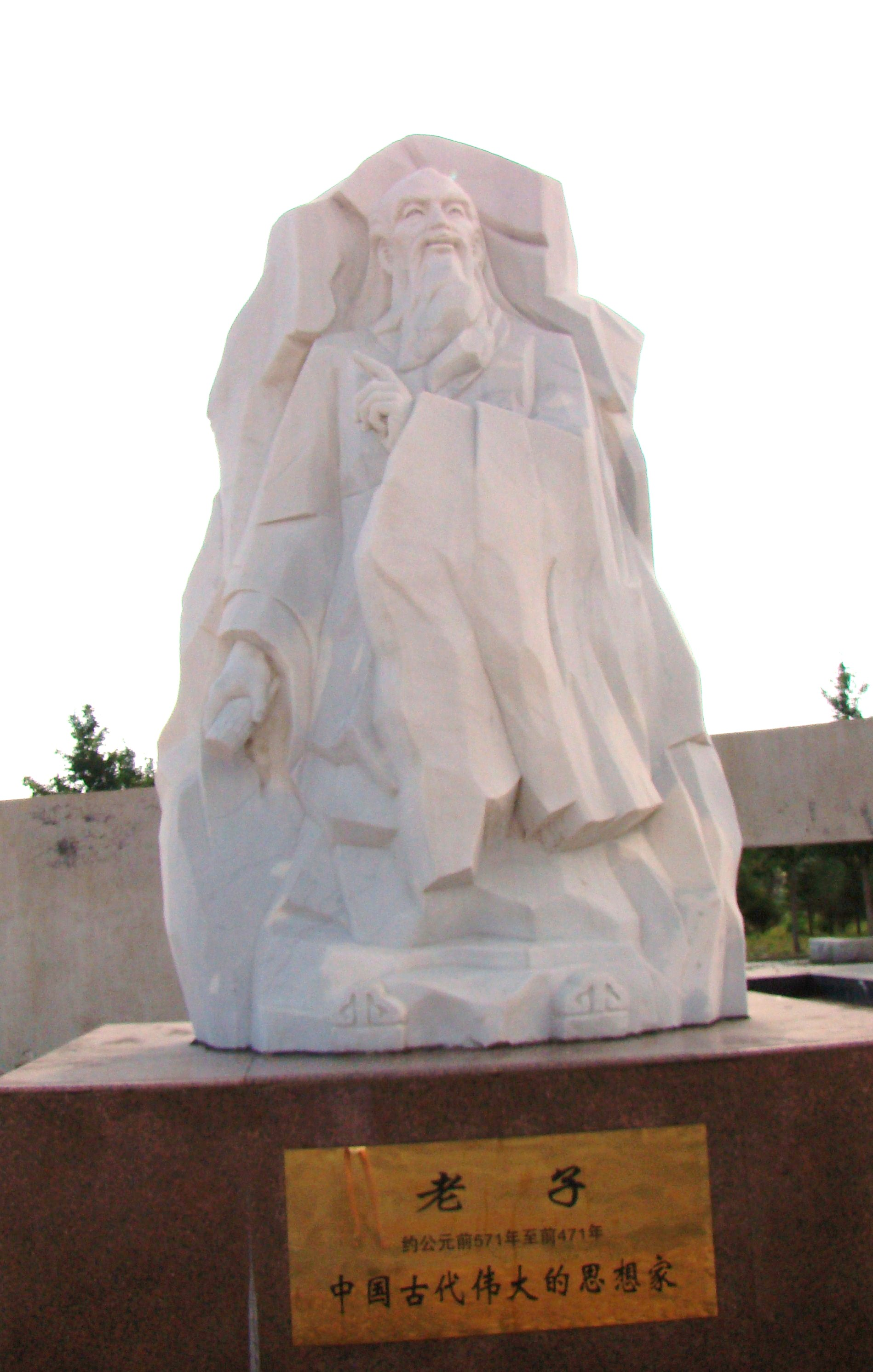 the Statue of Laozi in Shenyang Li Gong University's campus